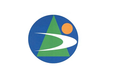 Flag of Tainai Niigata